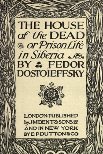 The House of Dead by Fiodor Dostoyevsky, book cover, J. M. Dent & Sons Ltd., 1911